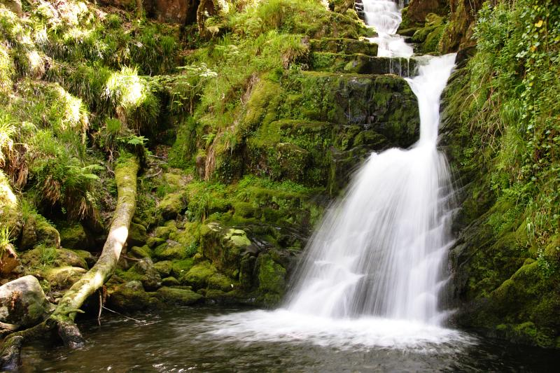 O'Sullivan's Cascade in Killarney National Park, County Kerry, Southwest Ireland